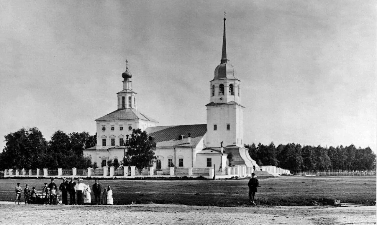 Church in Old Arhangelsk, pre 1917 photo